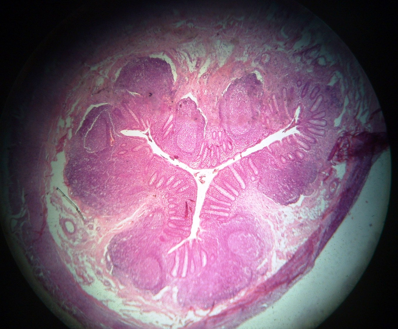 Vermiform appendix